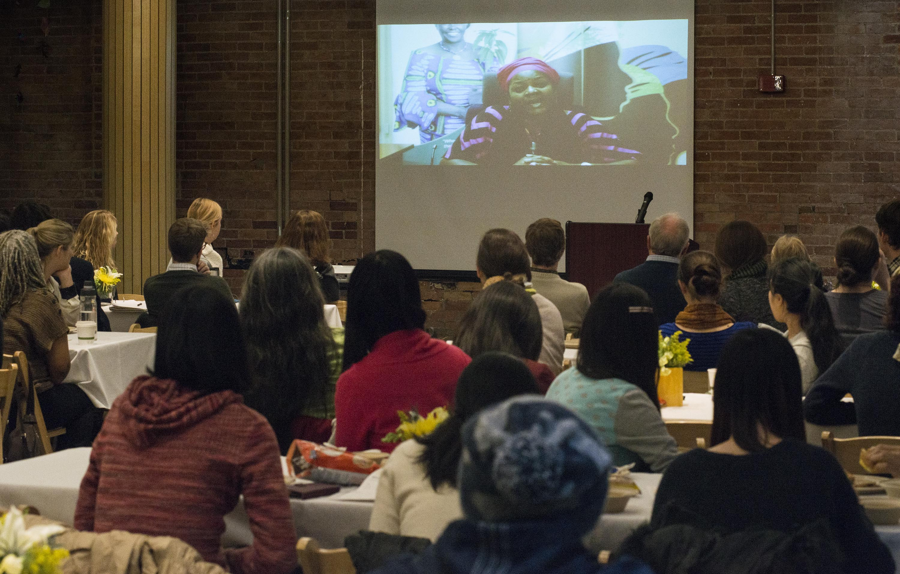 Wanjira Mathai Photo by Dave Brenner